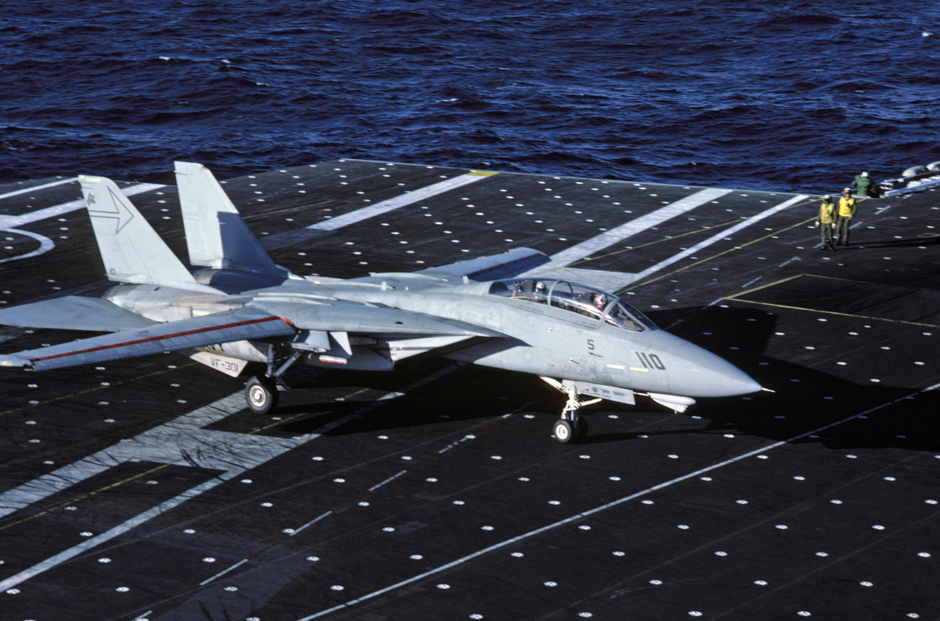 A U.S. Naval Reserve Grumman F-14A Tomcat aircraft of fighter squadron VF-301 Devils's Deciples, Reserve Carrier Air Wing 30 (RCVW-30), taxis along the flight deck during Naval Air Reserve carrier qualifications aboard the aircraft carrier USS Constellation (CV-64) in 1987.